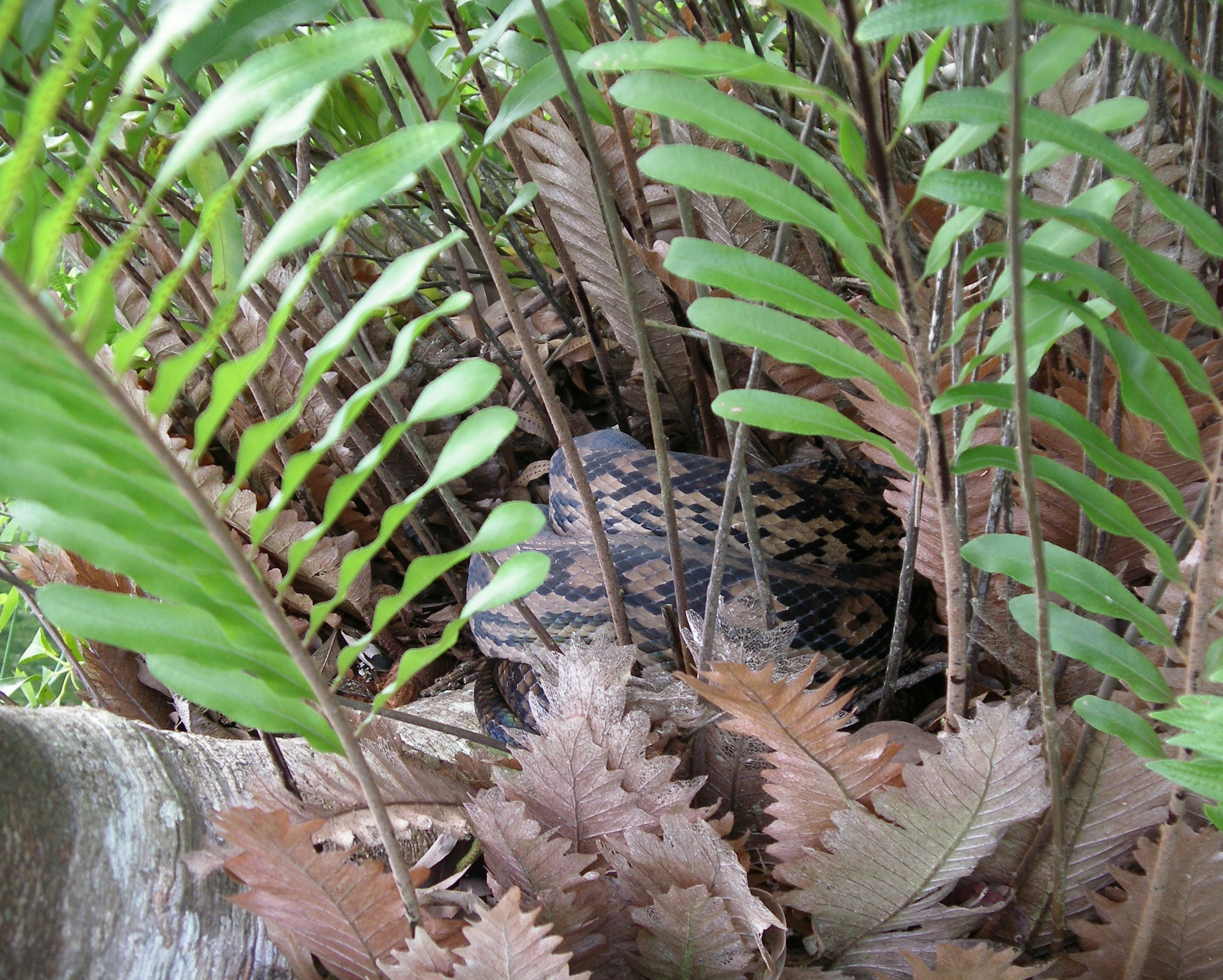 Australian Scrub Python (Morelia kinghorni) in an epiphyte on a tree at Lake Barrine, Australia